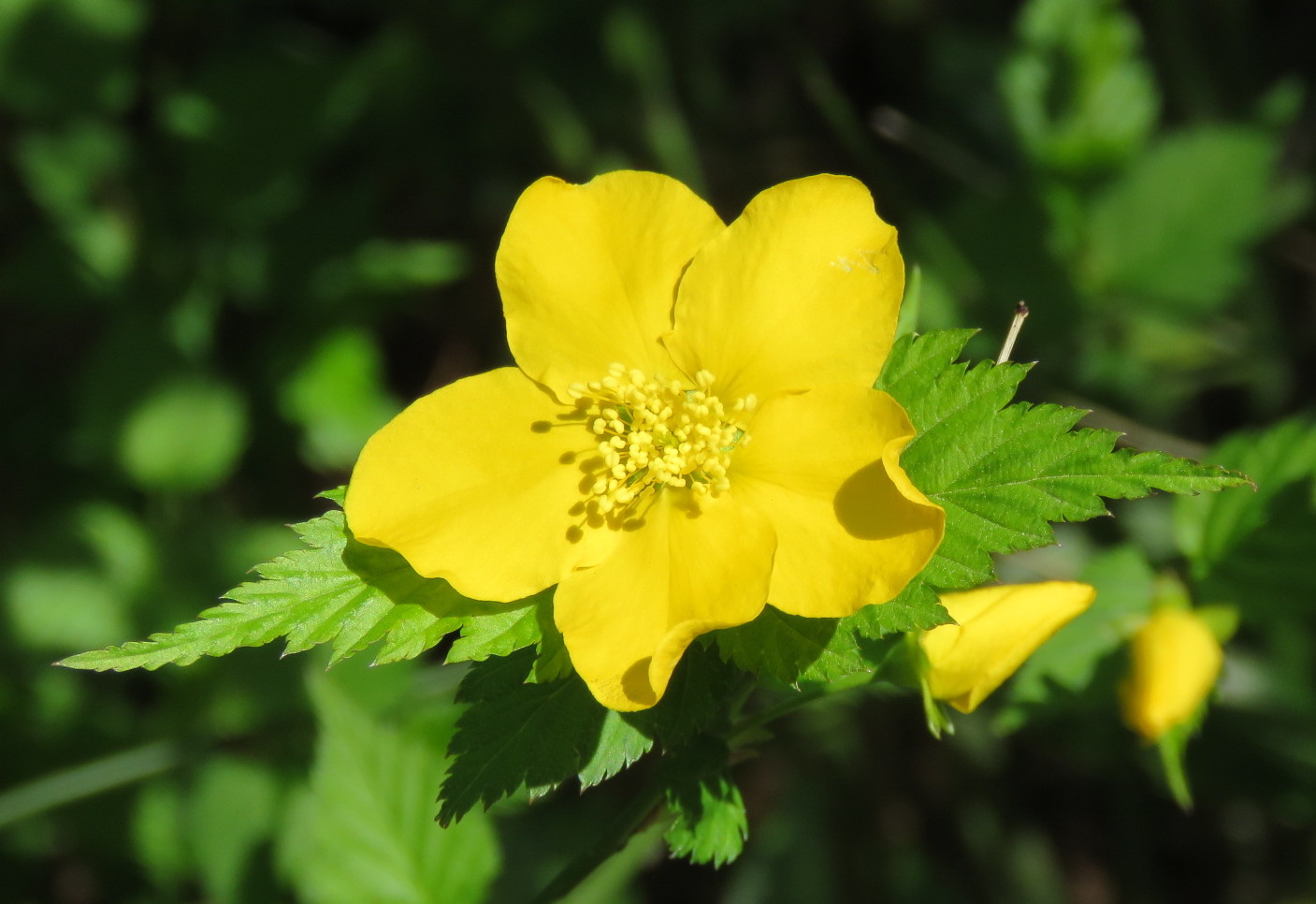 Institute for Nature Study, National Museum of Nature and Science, Shirokane, Tokyo, Japan.